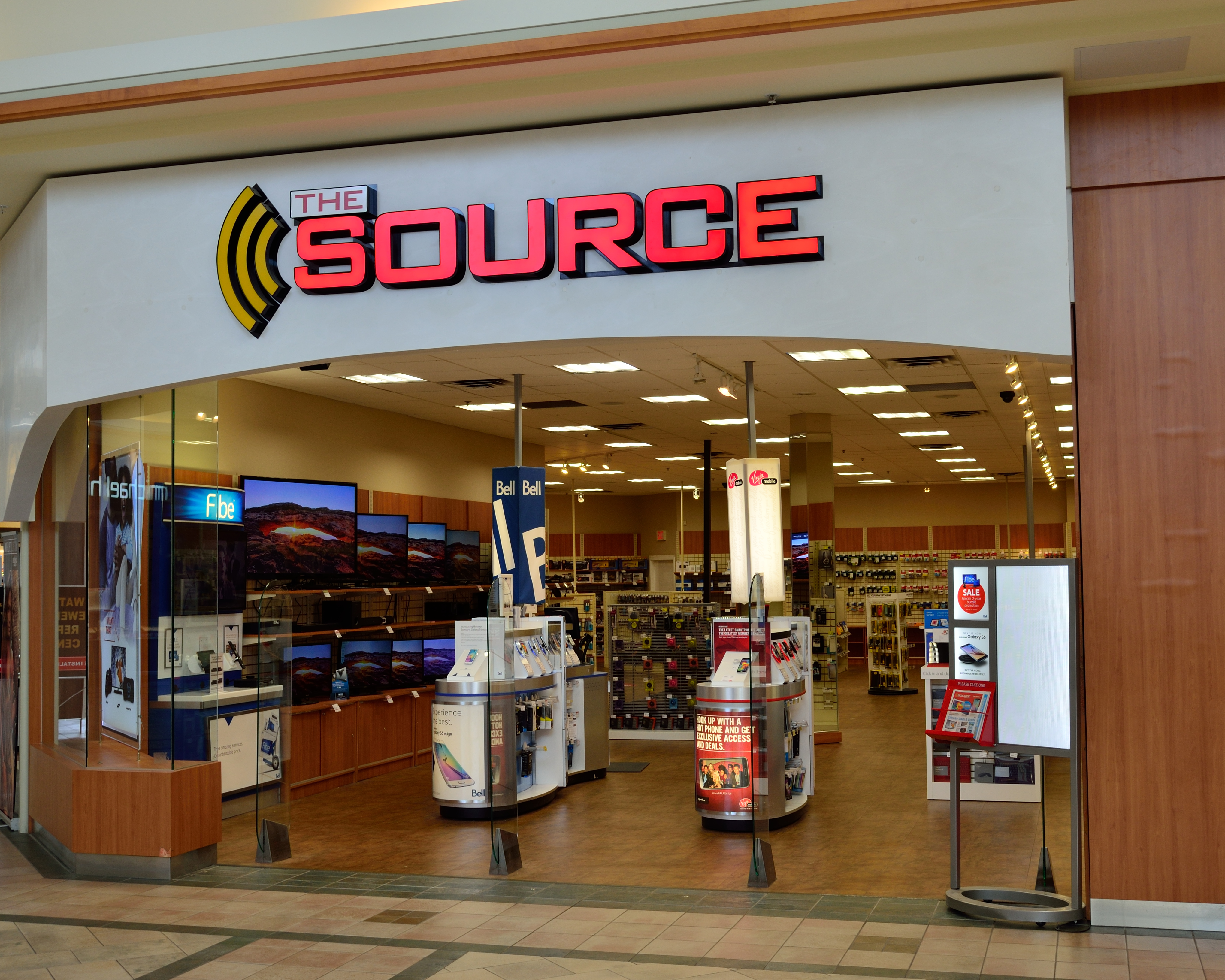 The Source at Hillcrest Mall